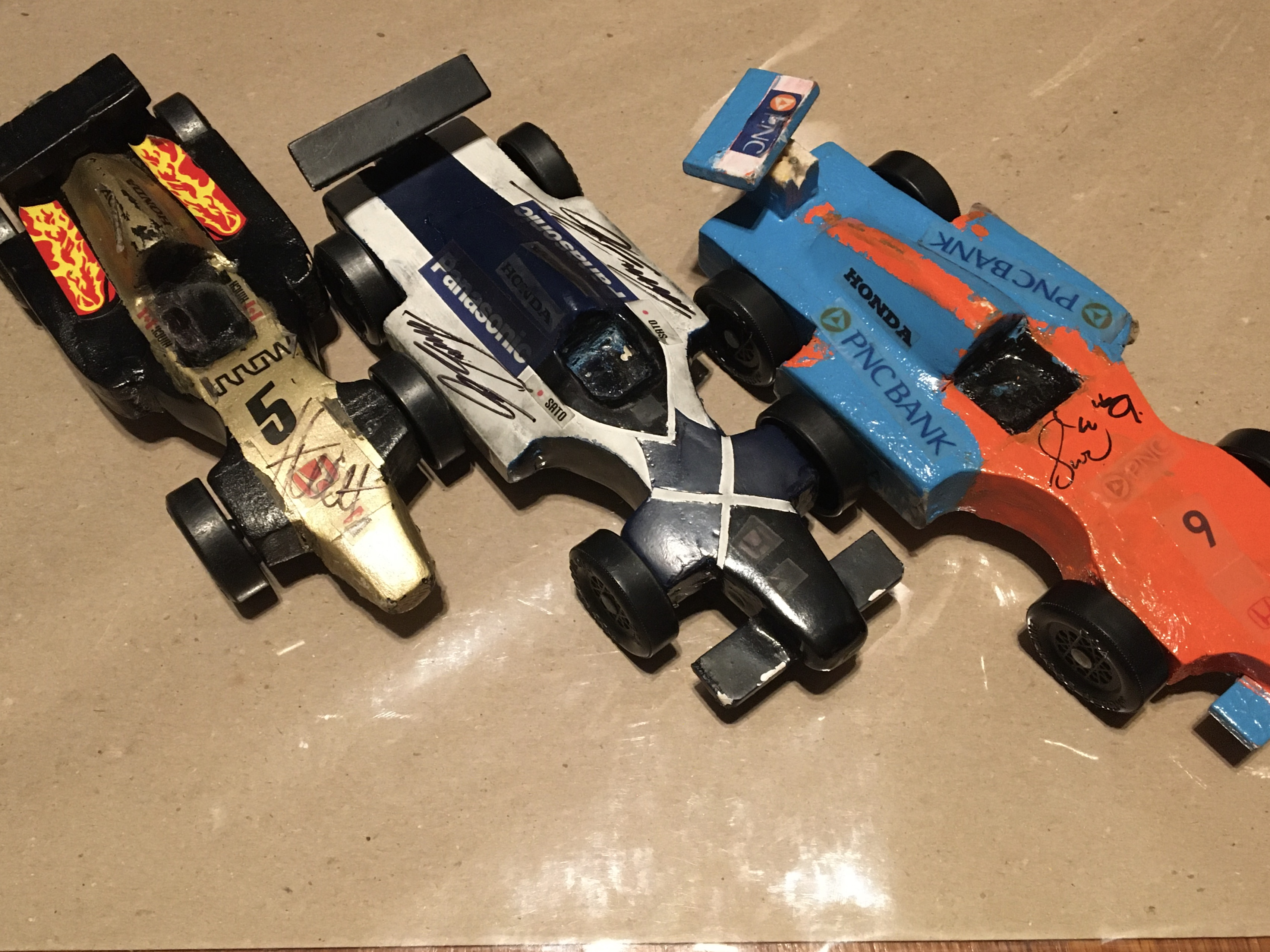 3 cars designed after different Indycars and signed by each driver